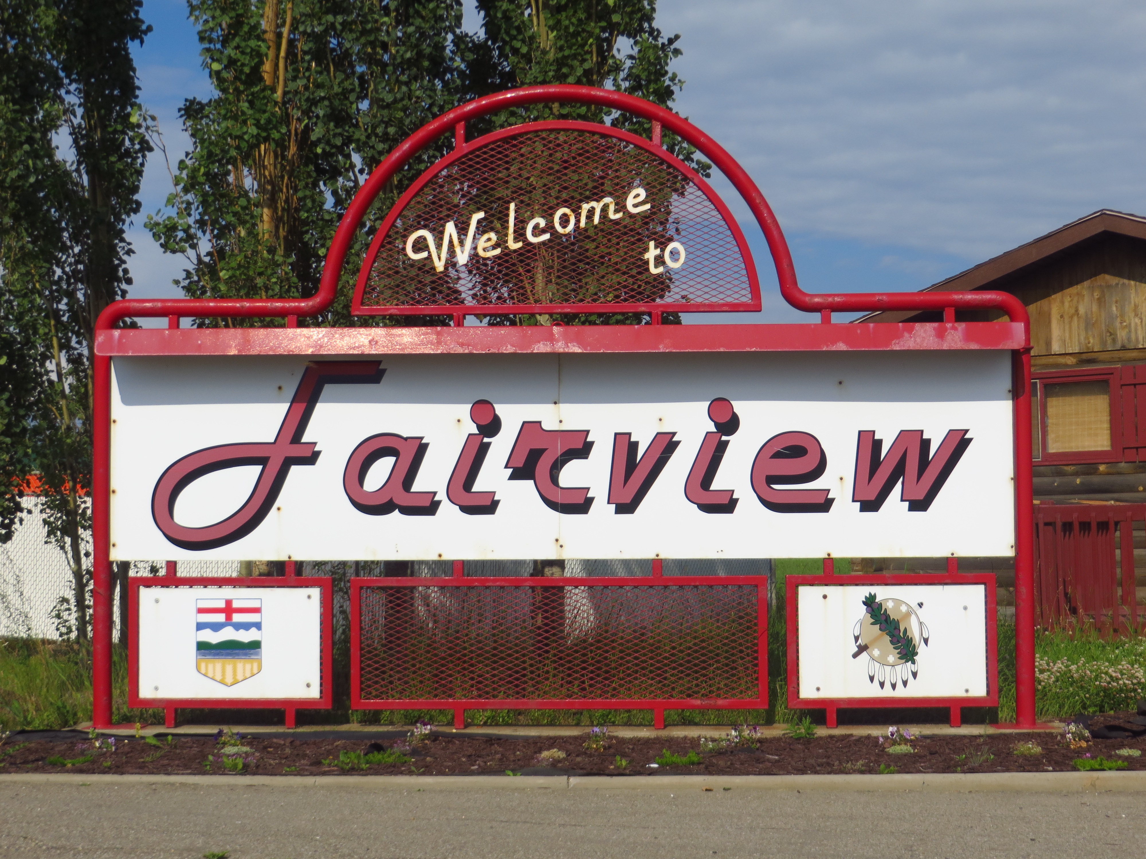 A sign welcoming drivers to the Town of Fairview